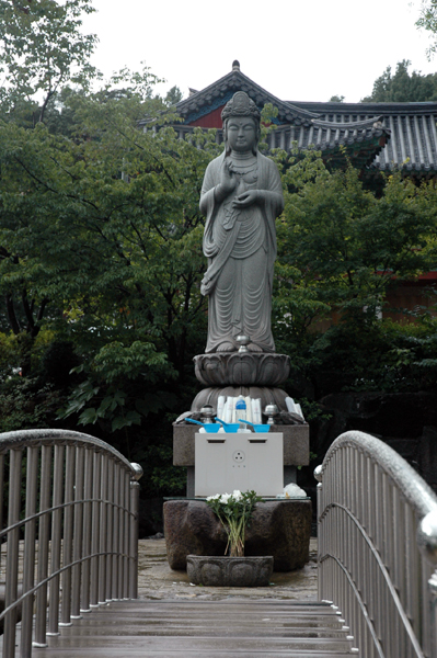 Bongeunsa, a Buddhist temple of Jogye Order located in Samseong-dong, Gangnam-gu, Seoul, South Korea.